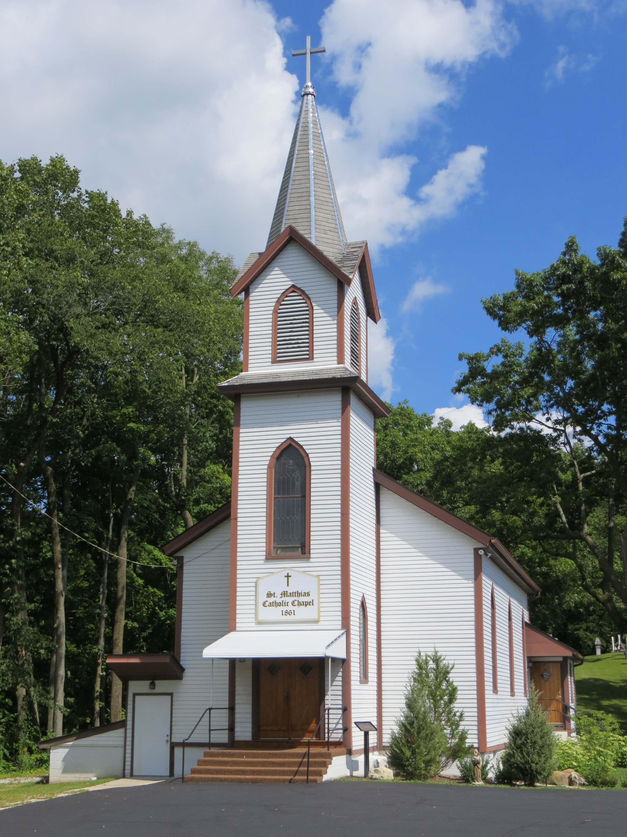 The St. Matthias Mission north of New Fane, Wisconsin